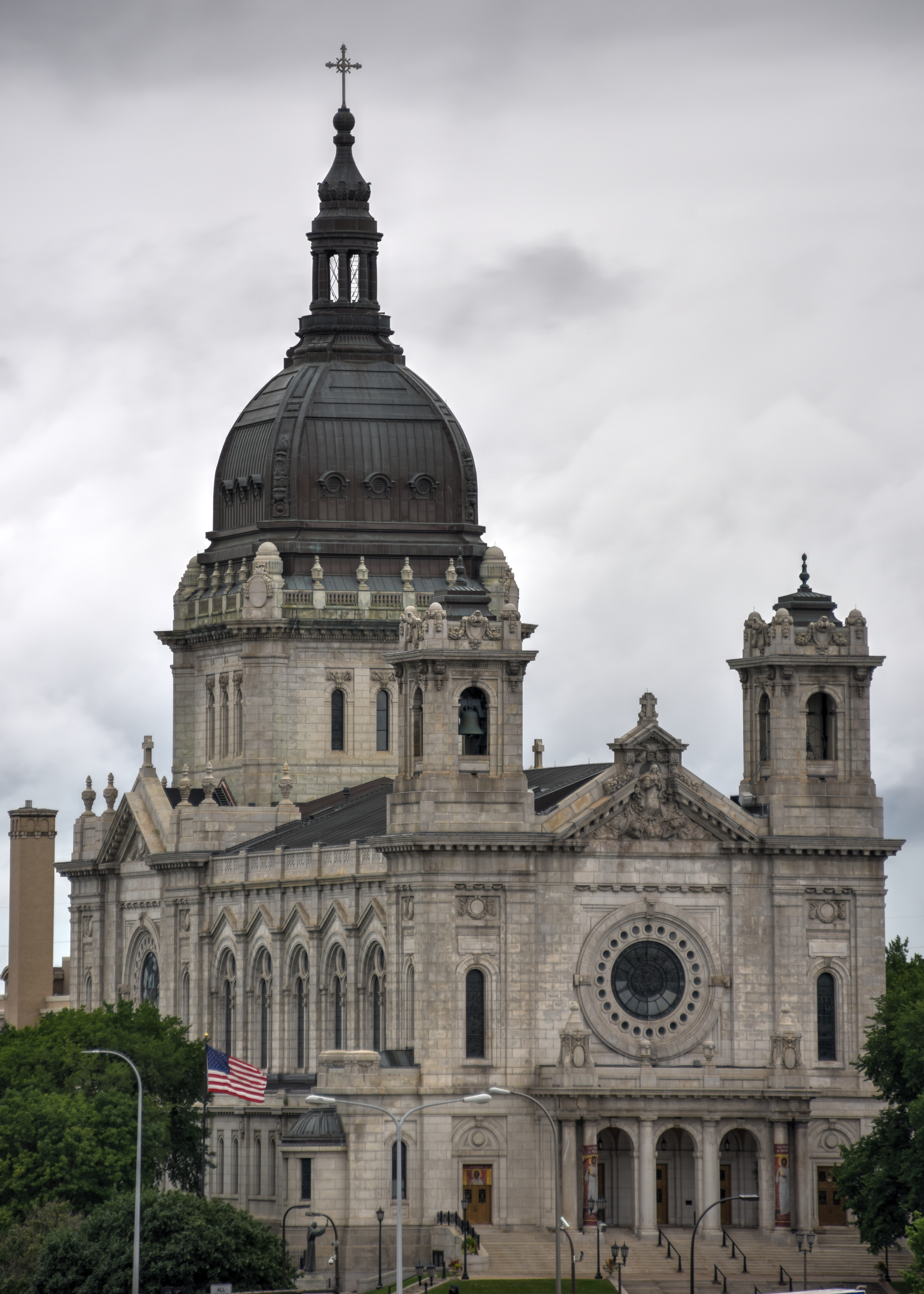 St. Mary's Basilica in Minneapolis, as viewed from the rooftop deck of the Walker Art Center across the street.